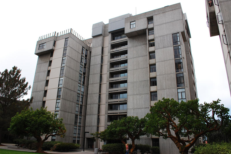 UCSD Muir College residence, Tioga Hall